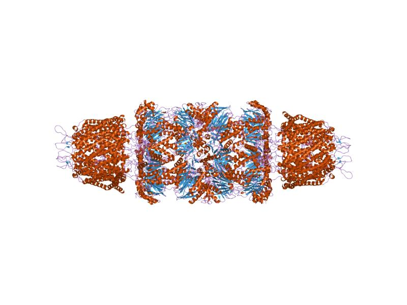 Cartoon representation of the molecular structure of protein registered with 1z7q code.